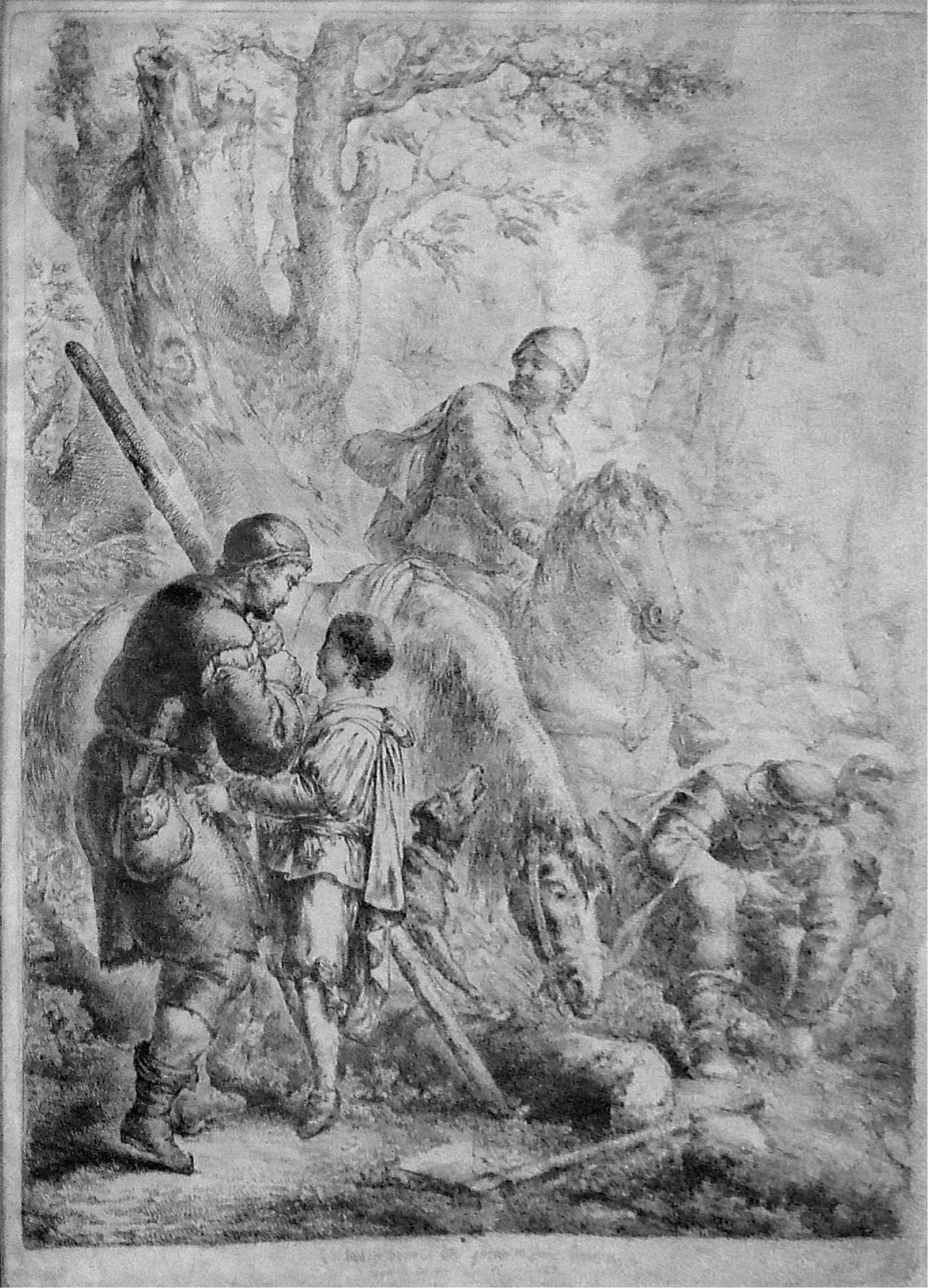 The Collier Defends the Kidnapped Saxon Prince against His Kidnapper, Kuntz von Kauffungen, engraving by Bernhard Rode, 1781. "Kunz von Kauffungen, who had kidnapped the Saxon princes, has dismounted from his horse and gathers in his helmet some strawberries to refresh the small prince; meanwhile, drawn by the barking of his dog, a collier discovers them. Kauffungen's companion, on horseback, apparently notices the discovery." (Catalog of the 1786 exhibition of the Berlin Academy, in: Kataloge der Berliner Akademie-Ausstellungen 1786-1850, ed. by H. Börsch-Supan, vol. 1, Berlin 1971.)